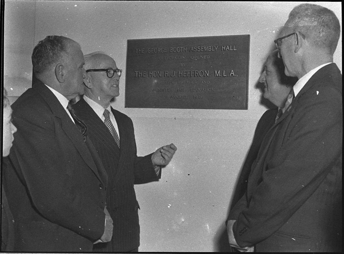 Opening new high school at Kurri Kurri